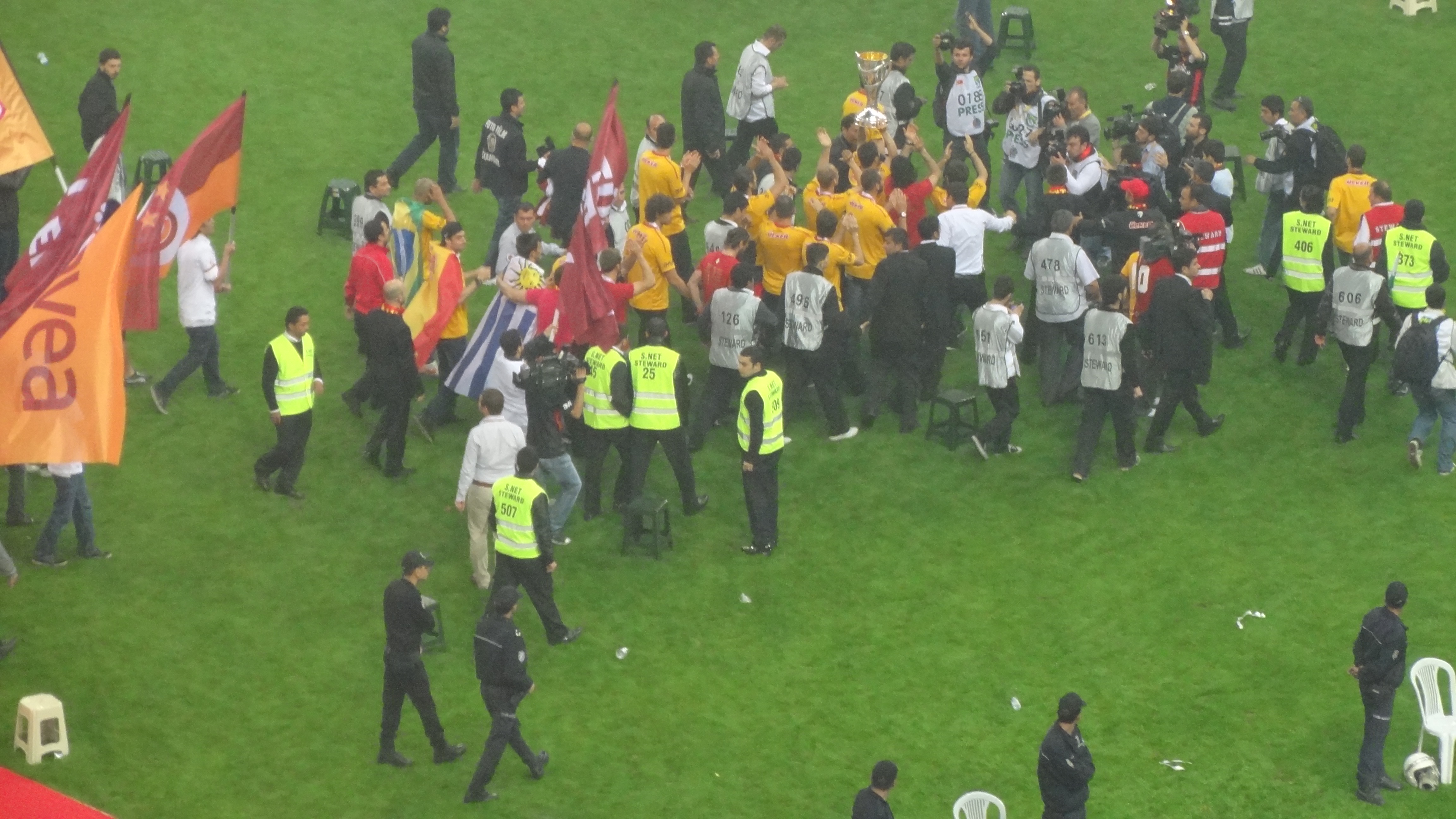 Galatasaray SK Football Team are celebrating 2011-2012 Championship